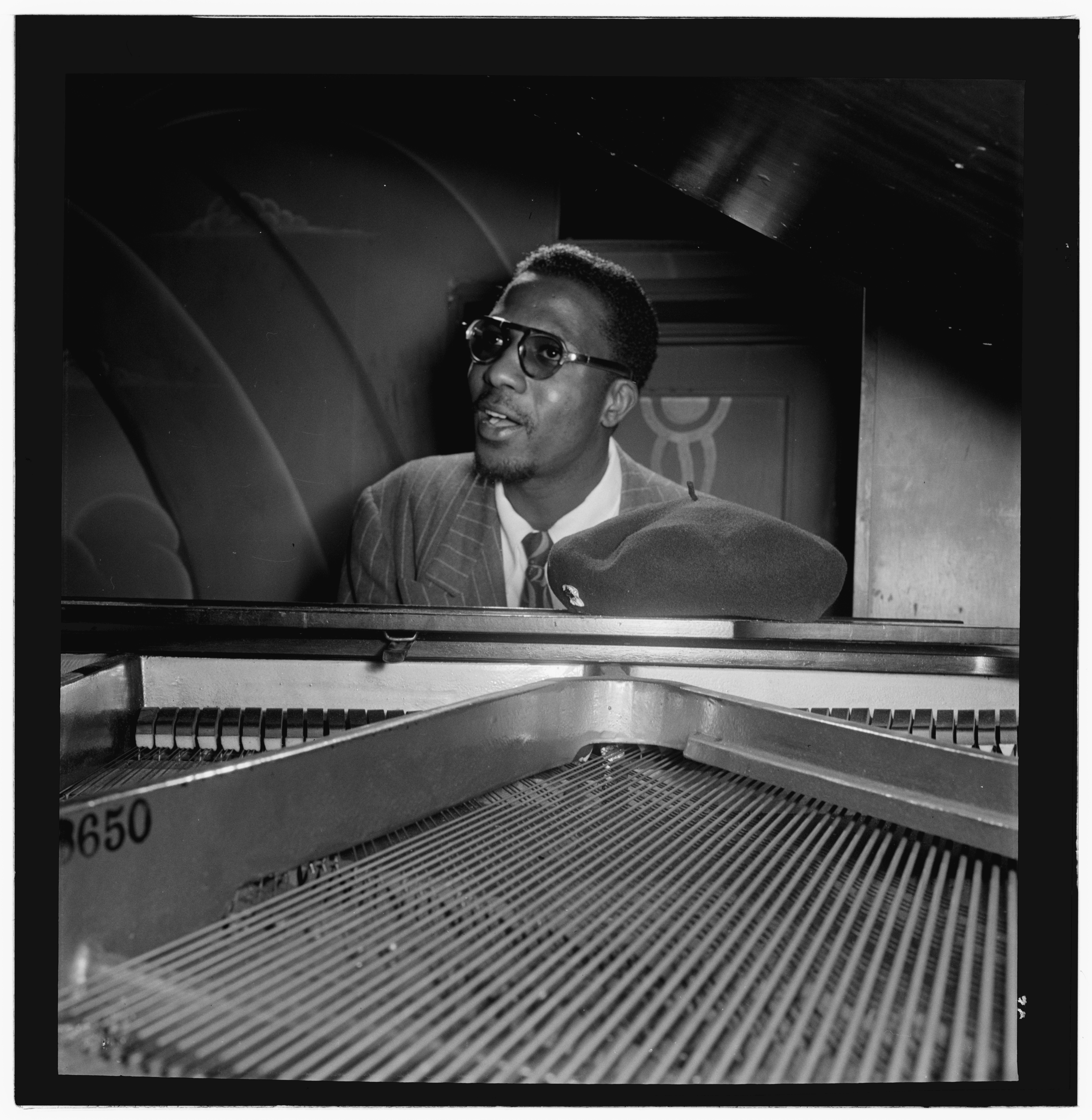 Thelonious Monk, Minton's Playhouse, New York, N.Y., ca. September 1947 (Photograph by William P. Gottlieb)